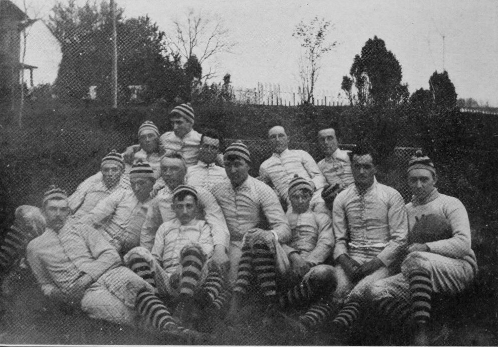 The first football team at Virginia Agricultural and Mechanical College (now Virginia Tech). Professor Anderson (with the ball at the right) was the team captain.